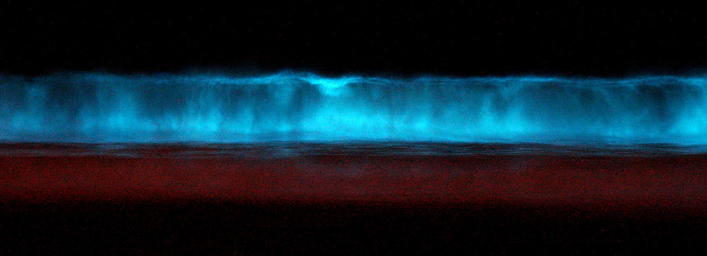 Bioluminescent dinoflagellates (Lingulodinium polyedra) lighting a breaking wave at midnight. The blue light is a result of a luciferase enzyme (like firefly luciferase, but the enzyme in L. polyedra shares no similarity with that of the firefly enzyme). Under the right conditions, the dinoflagellates become so numerous that the water takes on a muddy reddish color (hence the name "Red Tide"). The bioluminescence is only visible at night. The photo was taken 6/26/2005 with a Canon Rebel XT - 6s, f5.6, ISO 1600, 85mm (135mm equiv).